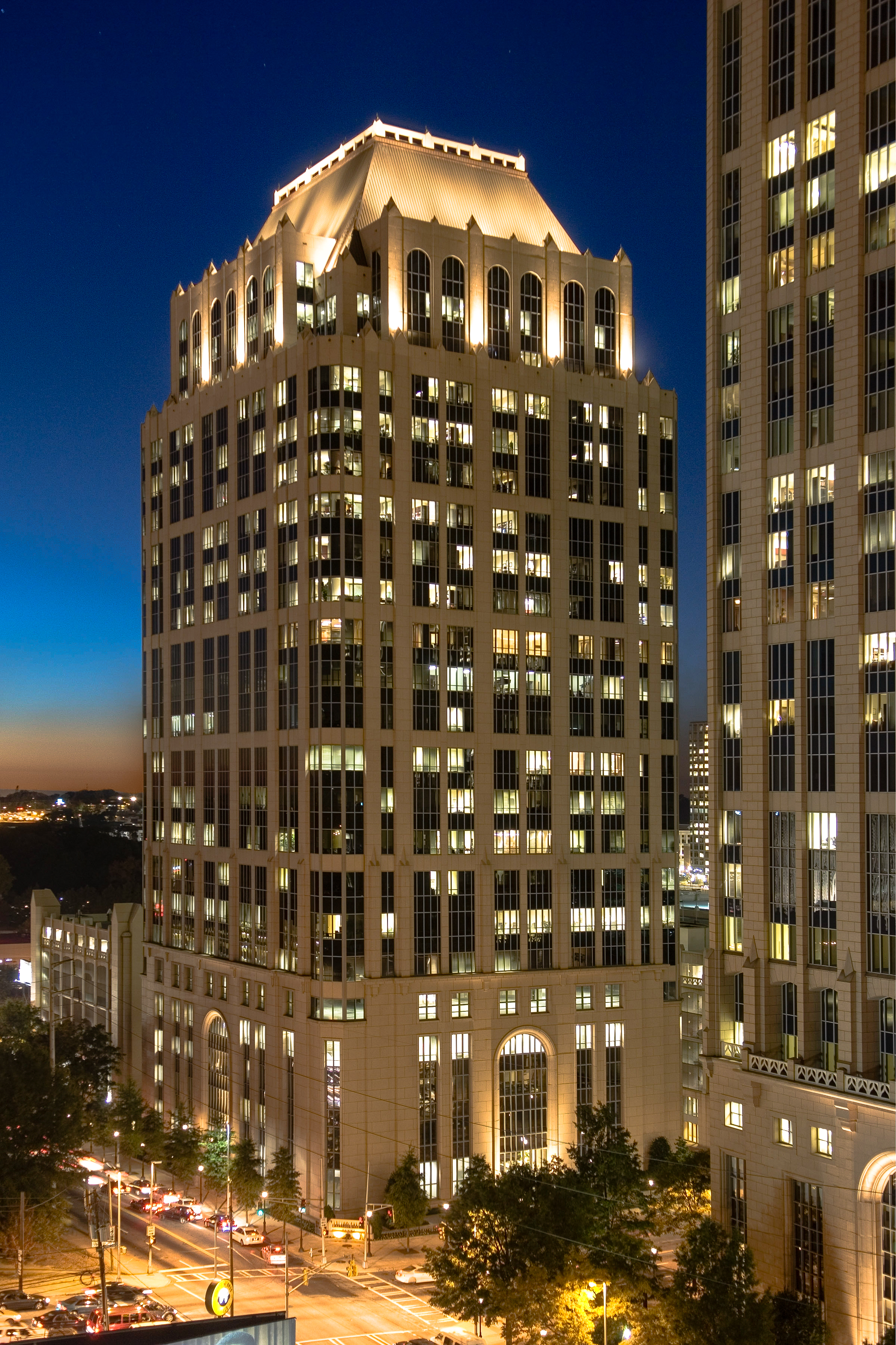 Atlantic Center Plaza